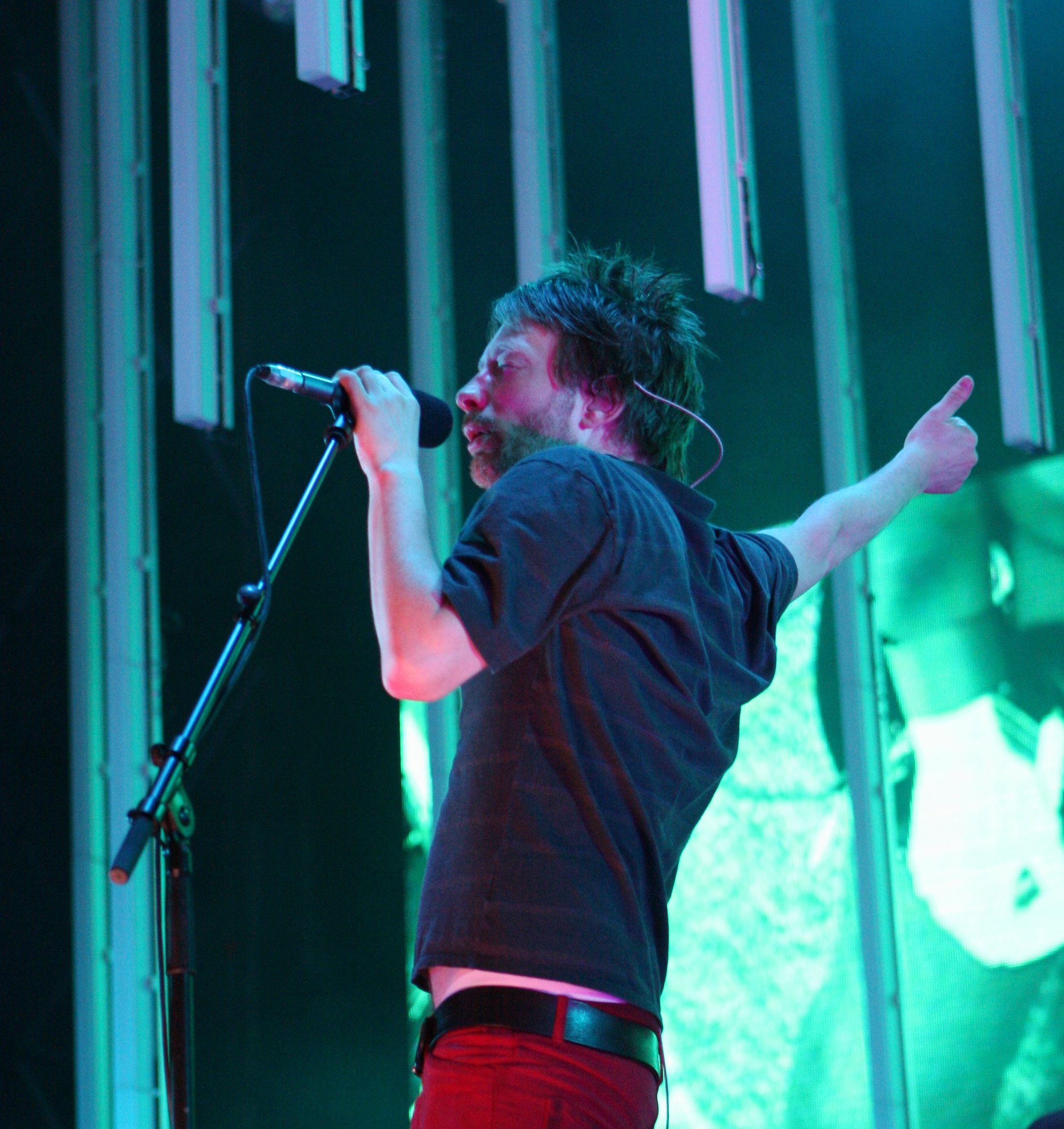 Thom Yorke of Radiohead at the Daydream Festival in Barcelona at June 12, 2008. Podéis encontrar más información de este y otros eventos en nuestra web